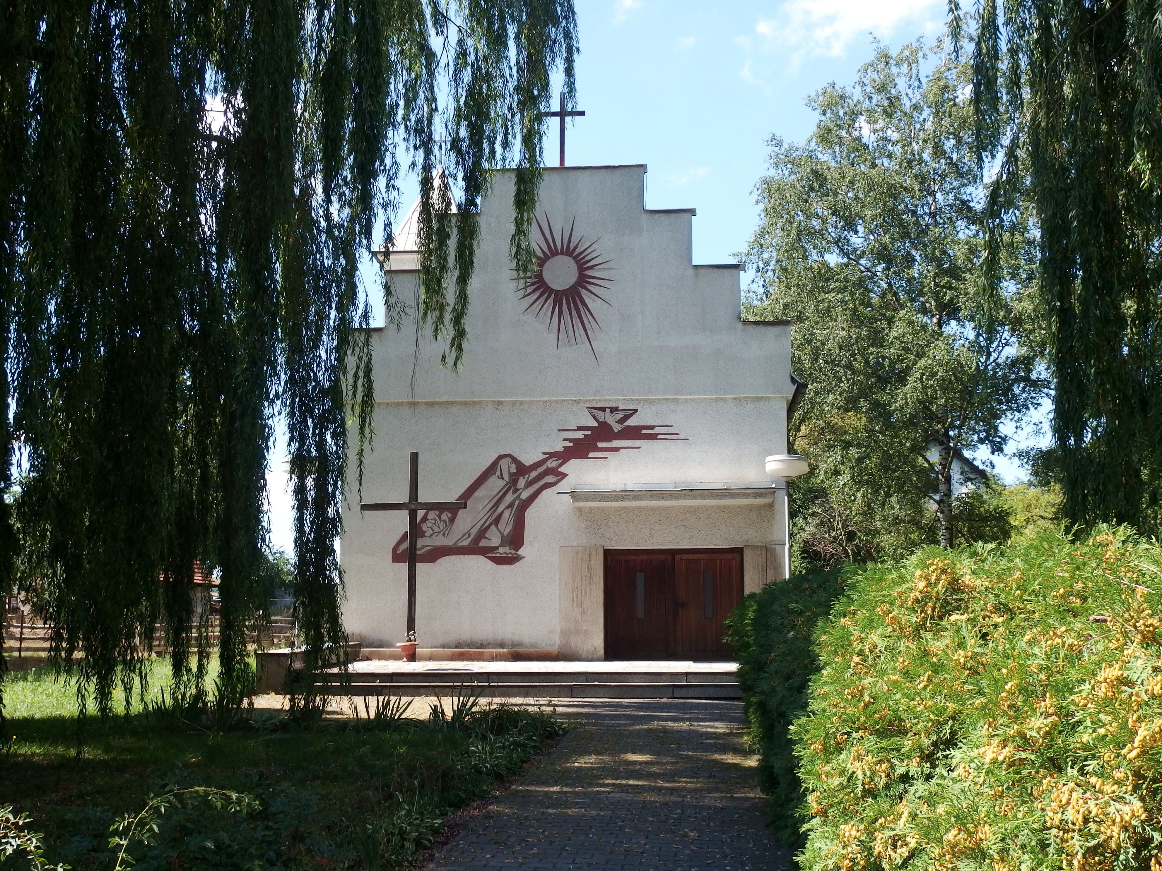 Nový Jičín, Czech Republic, part Loučka.